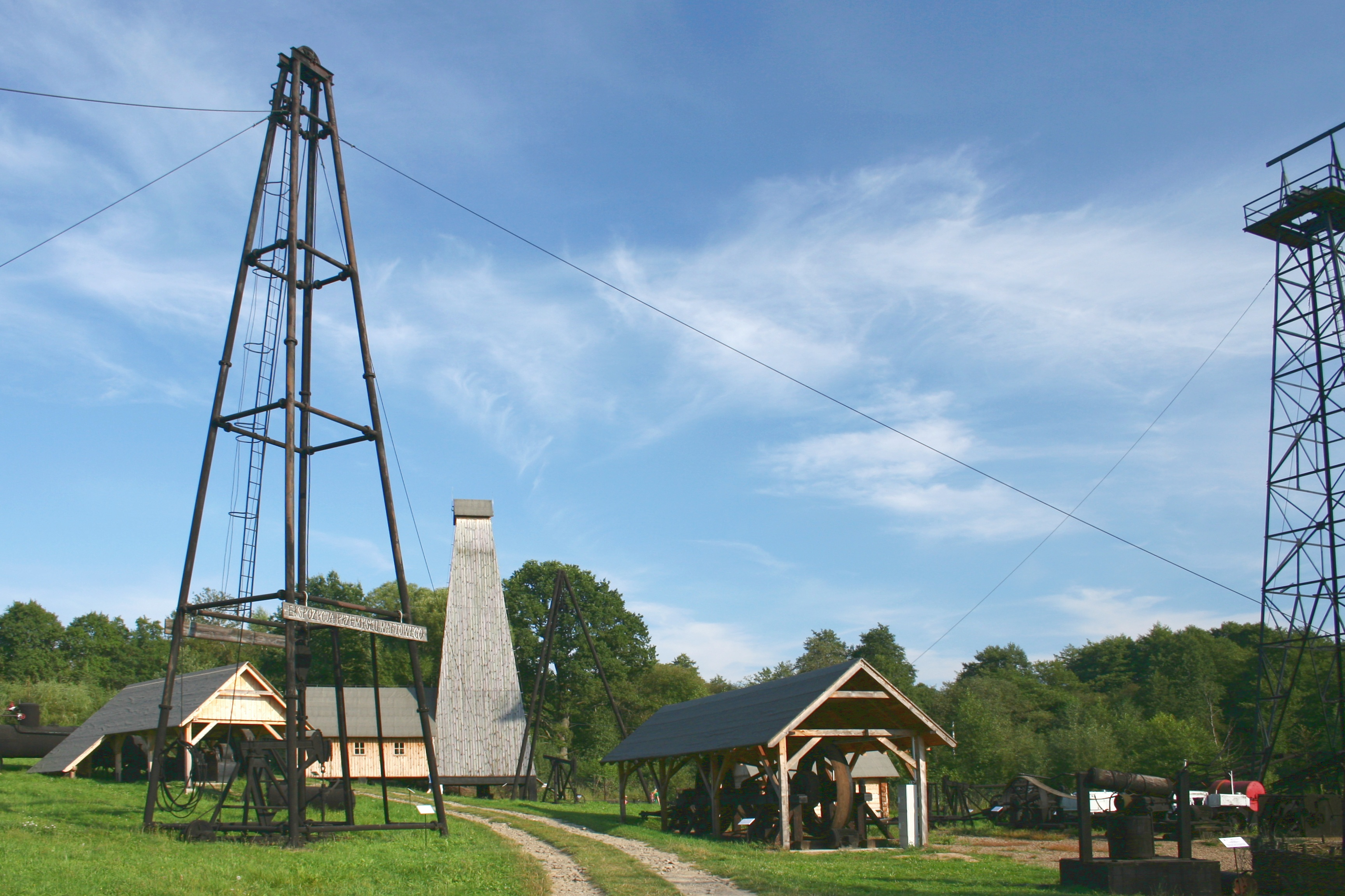 Open air museum in Poland - petroleum industry